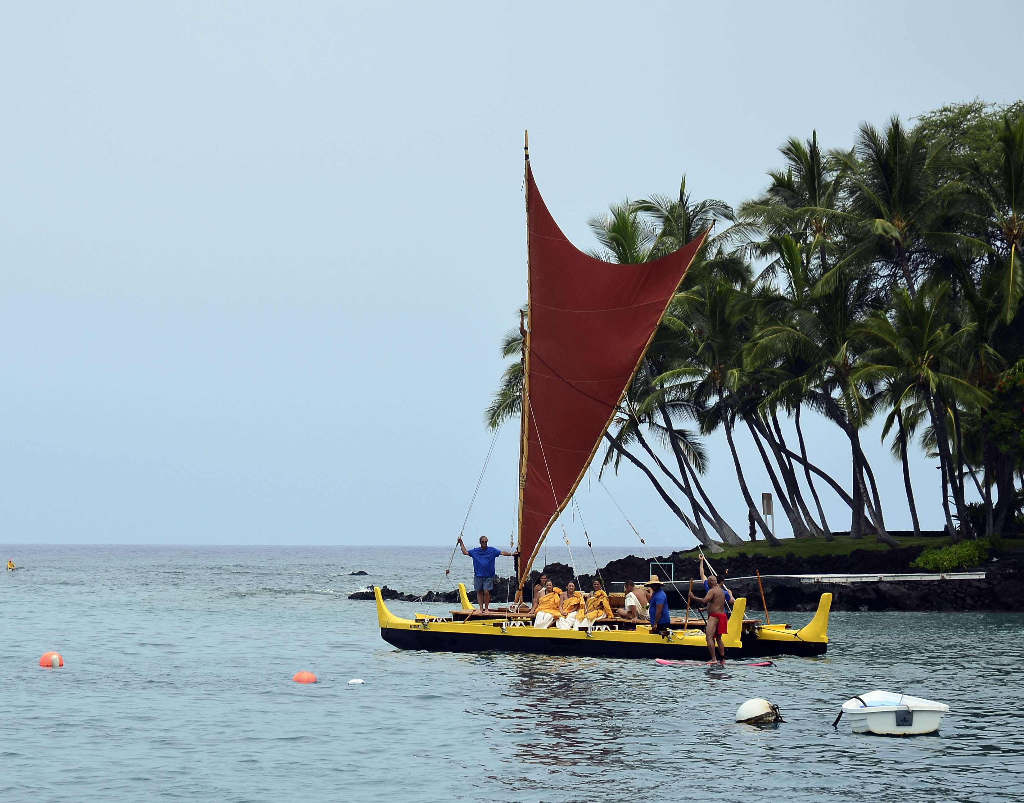 Hawaiian double hulled sailing canoe setting out on ceremonial voyage.